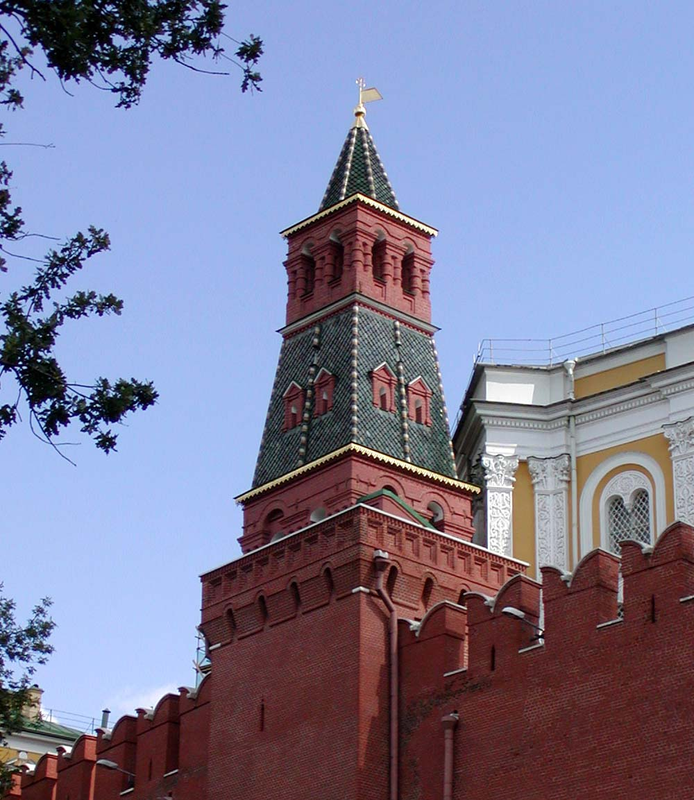 Photo of Oruzheynaya Tower in Moscow Kremlin